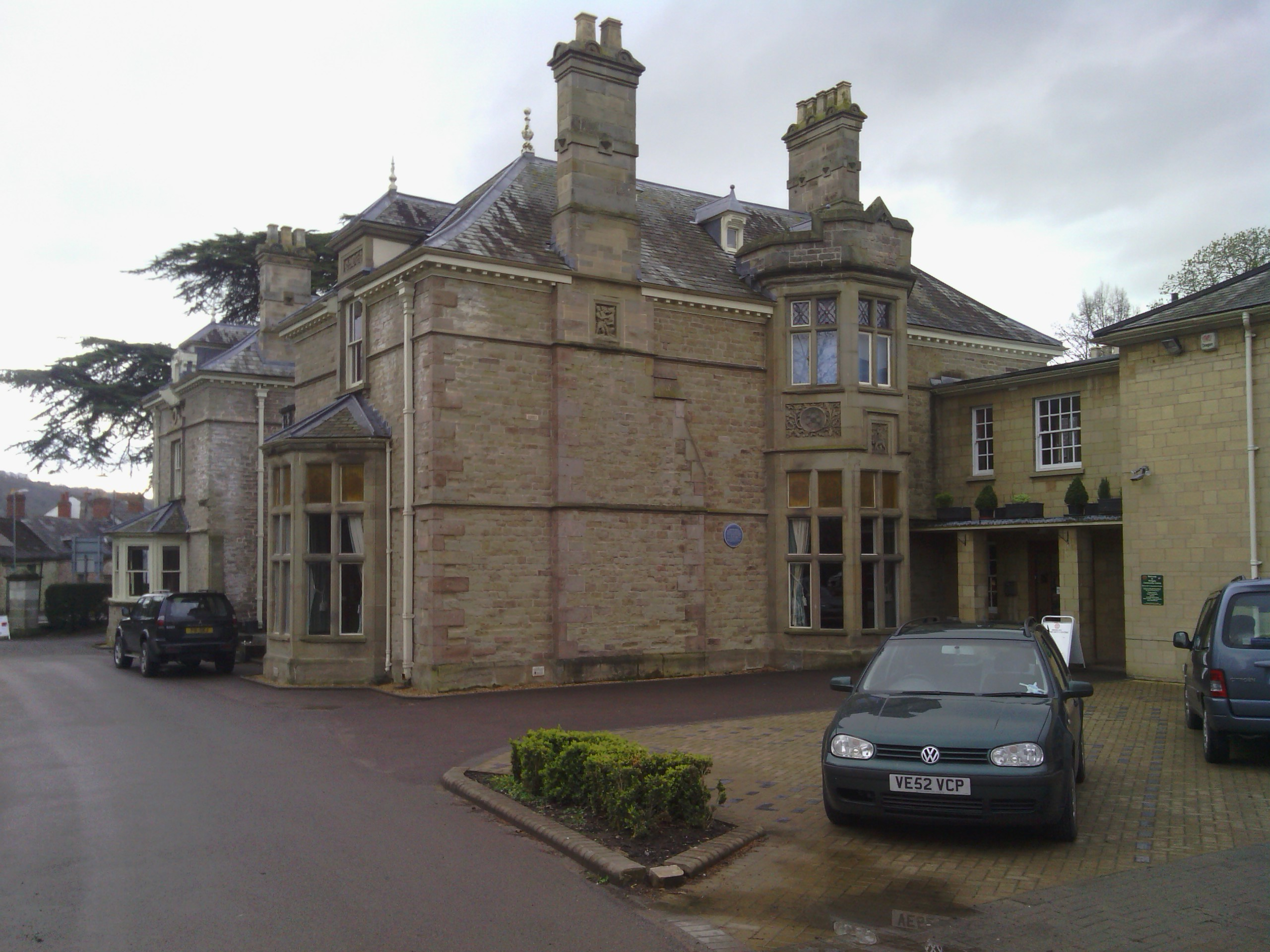 Drybridge House 2012 in Monmouth